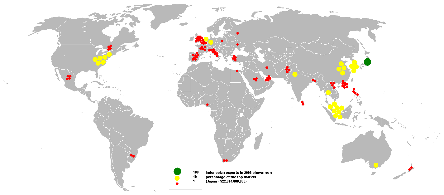 This bubble map shows the global distribution of Indonesian exports in 2006 as a percentage of the top market (Japan - $22,014,600,000). This map is consistent with incomplete set of data too as long as the top producer is known. It resolves the accessibility issues faced by colour-coded maps that may not be properly rendered in old computer screens. Data was extracted on 17th September 2007 from Based on :Image:BlankMap-World.png